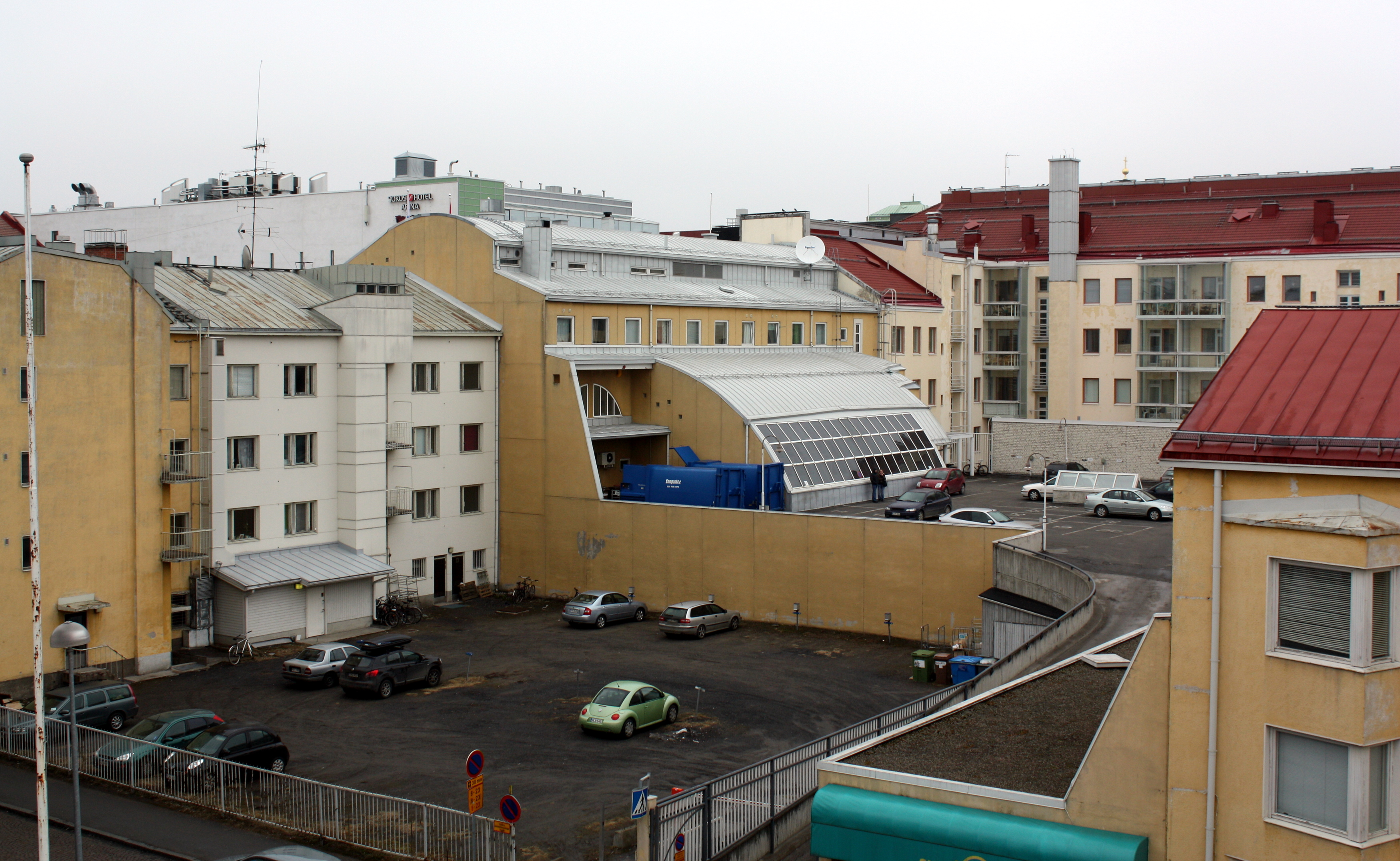 Parking lots in the Galleria block in the centre of Oulu, Finland.